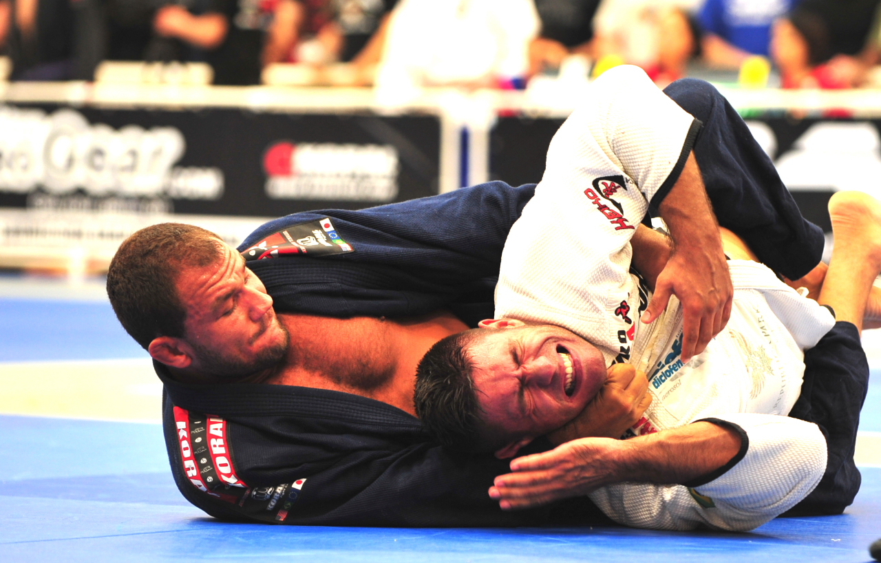 Brazilian Jiu-Jitsu blackbelt Roberto "Cyborg" Abreu chokes his opponent at the 2009 Pan-American Jiu-Jitsu Championship.